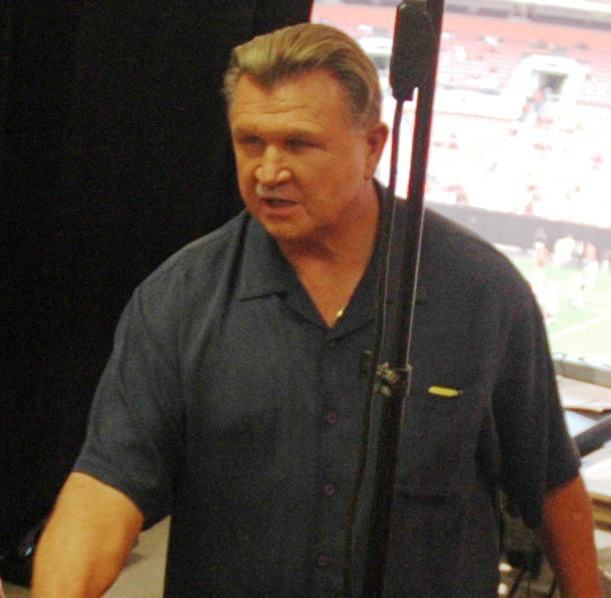 Sailors from amphibious transport dock ship USS Cleveland (LPD 7) were welcomed by legendary football coach Mike Ditka in the press booth during a National Football League pre-season game between the Cleveland Browns and Chicago Bears at Cleveland Browns Stadium in Cleveland, OH. The Sailors are in their ship's namesake town for Cleveland Navy Week. Twenty-six such Navy Weeks are planned this year in cities throughout the U.S., arranged by the Navy Office of Community Outreach (NAVCO) to increase awareness of the Navy in areas. The mission of NAVCO is to enhance the Navy's brand image in areas with limited exposure to the Navy.